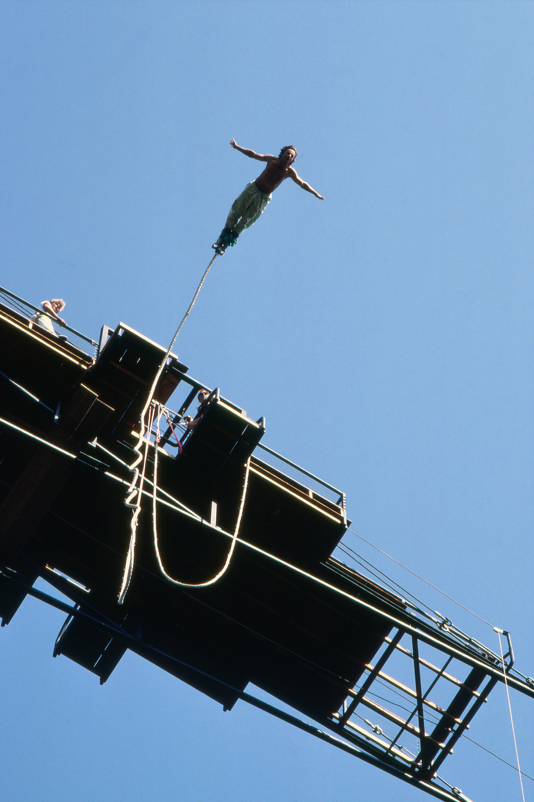 Souleuvre Viaduct, dismantled 1970, Bungee-Jumping from the highest pillar (61 m); la Vente, Normandy, France